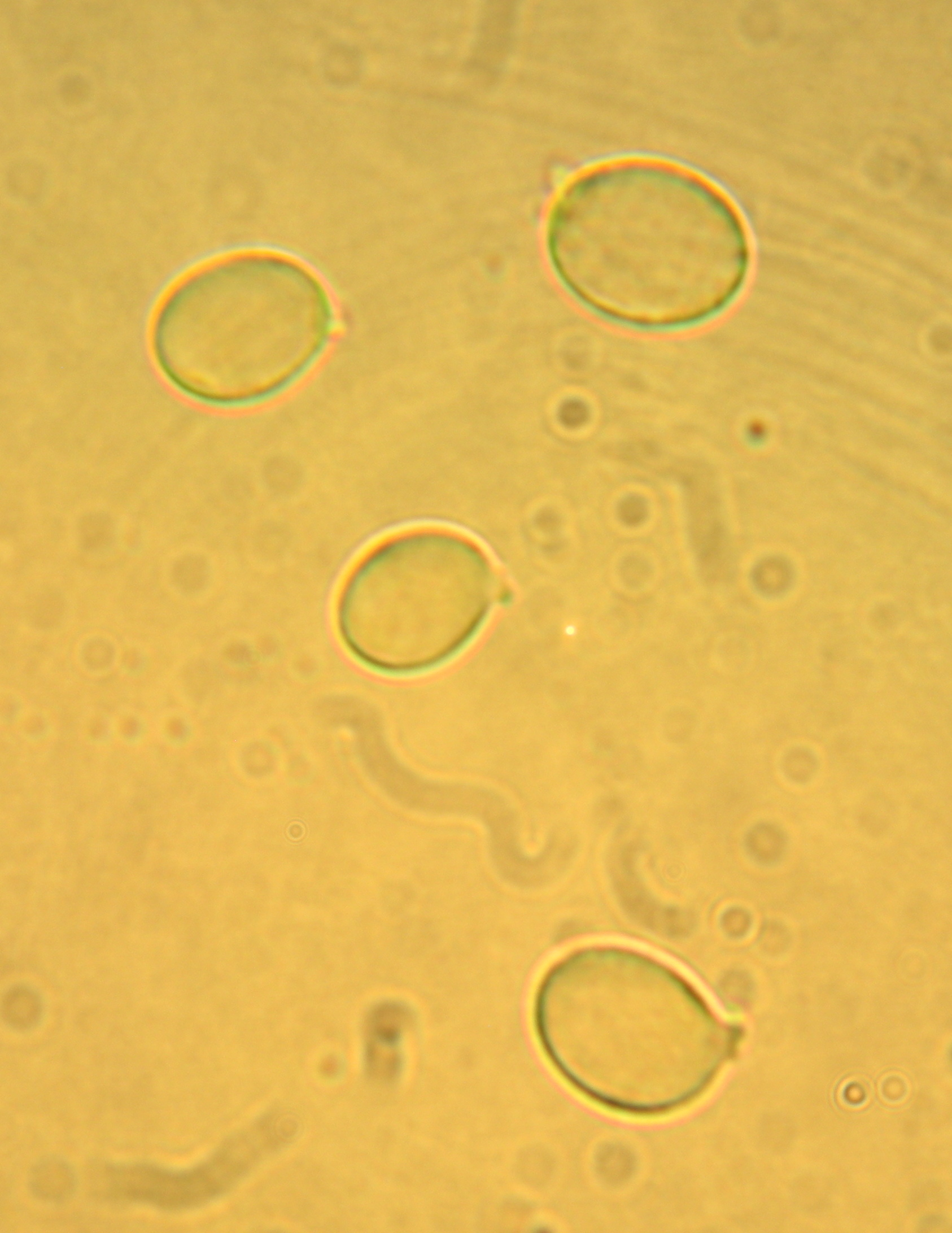 Amanita gemmata (Fr.) Bertill. (1866) Location: Point Reyes National Seashore, Marin Co., California, USA Observation Notes: Another example of the effect of fog drip at Point Reyes in late July.Amanita gemmata or at least what traditionally is called that locally.The white spores were not amyloid, subellipsoid to subglobose, ave. approx. 10.0 X 7.5 microns, and with a fairly distinct hilar appendage. For more information about this, see the observation page at Mushroom Observer.